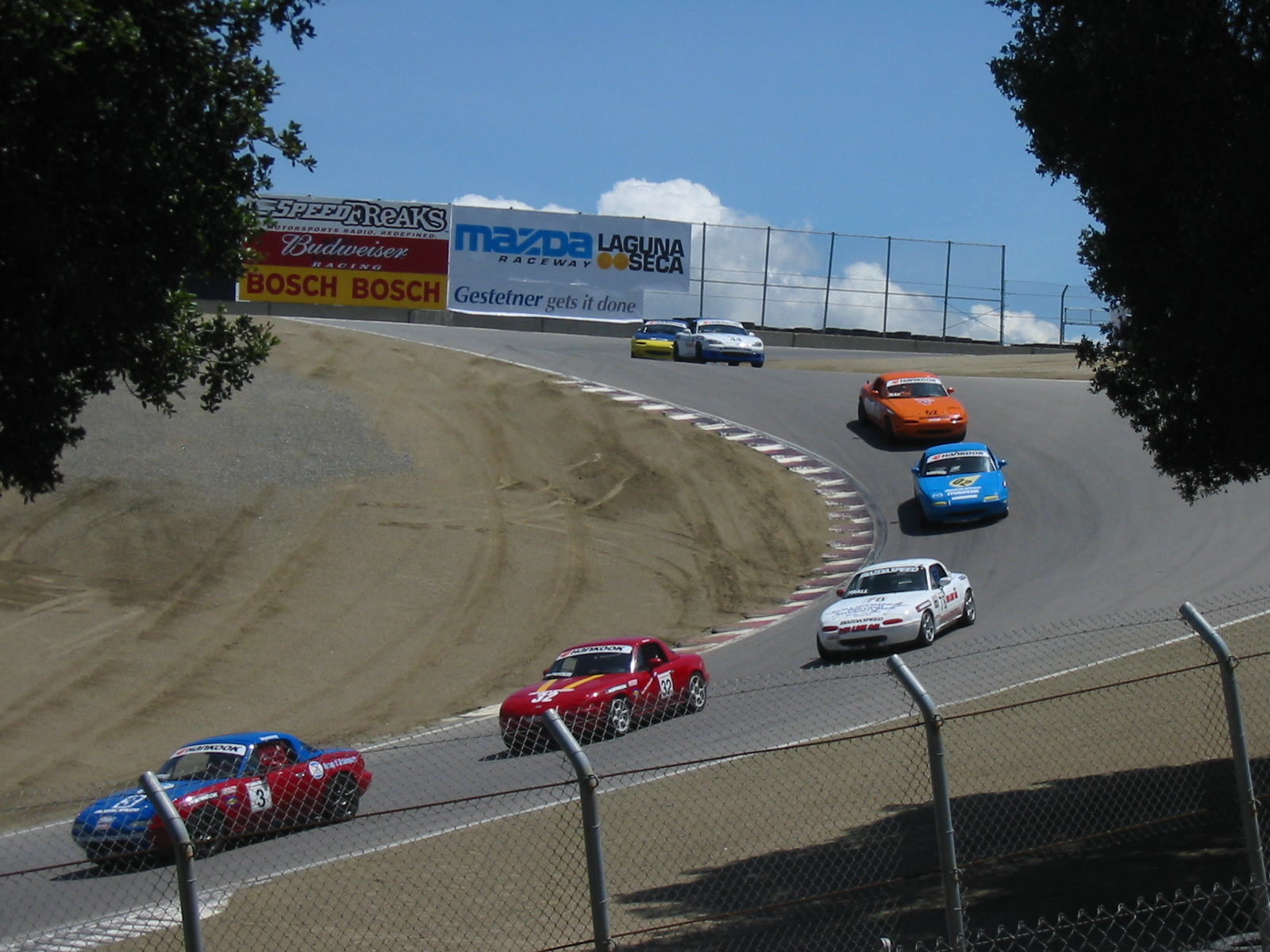 Laguna Seca - Corkscrew - Miata Spec Race